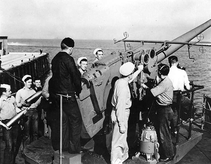 Photo #: 80-G-22246 - USS Shaw (DD-373) - Crewmen exercising with the ship's # three 5"/38 gun mount, while Shaw was tied up alongside a pier at Naval Air Station, Alameda, California, 8 July 1942.